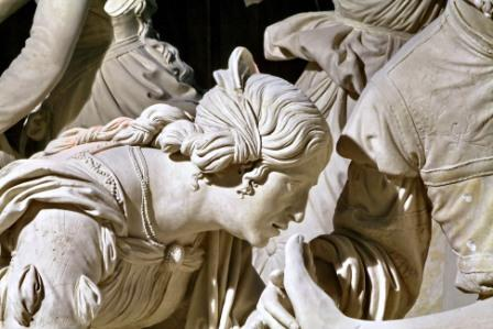 Detail from Ligier Richier's mise au tombeau in St Mihiel